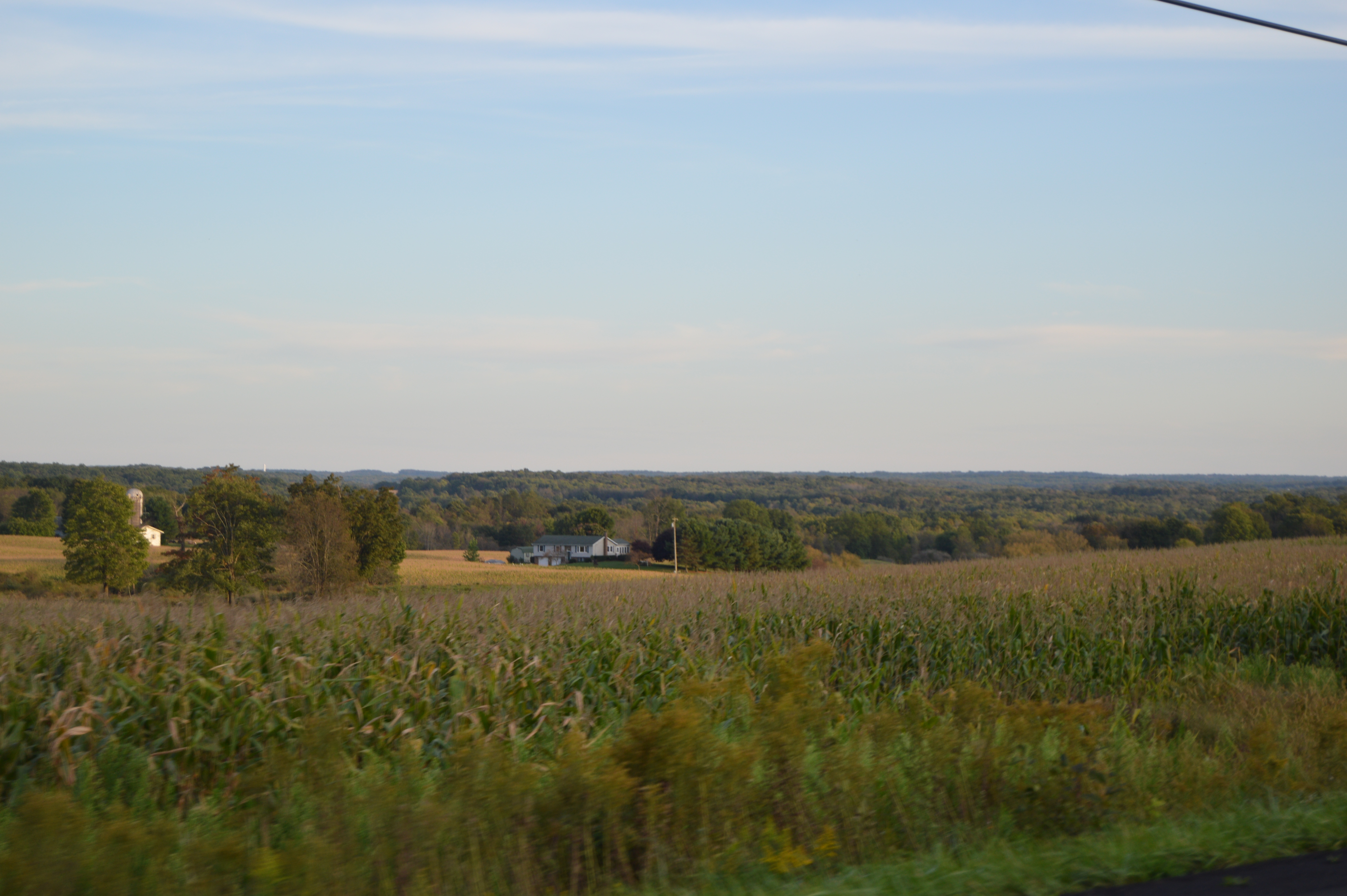 Fields and a farmstead to the east of Pennsylvania Route 173 just north of Kilgore Road in Worth Township, Mercer County, Pennsylvania, United States.